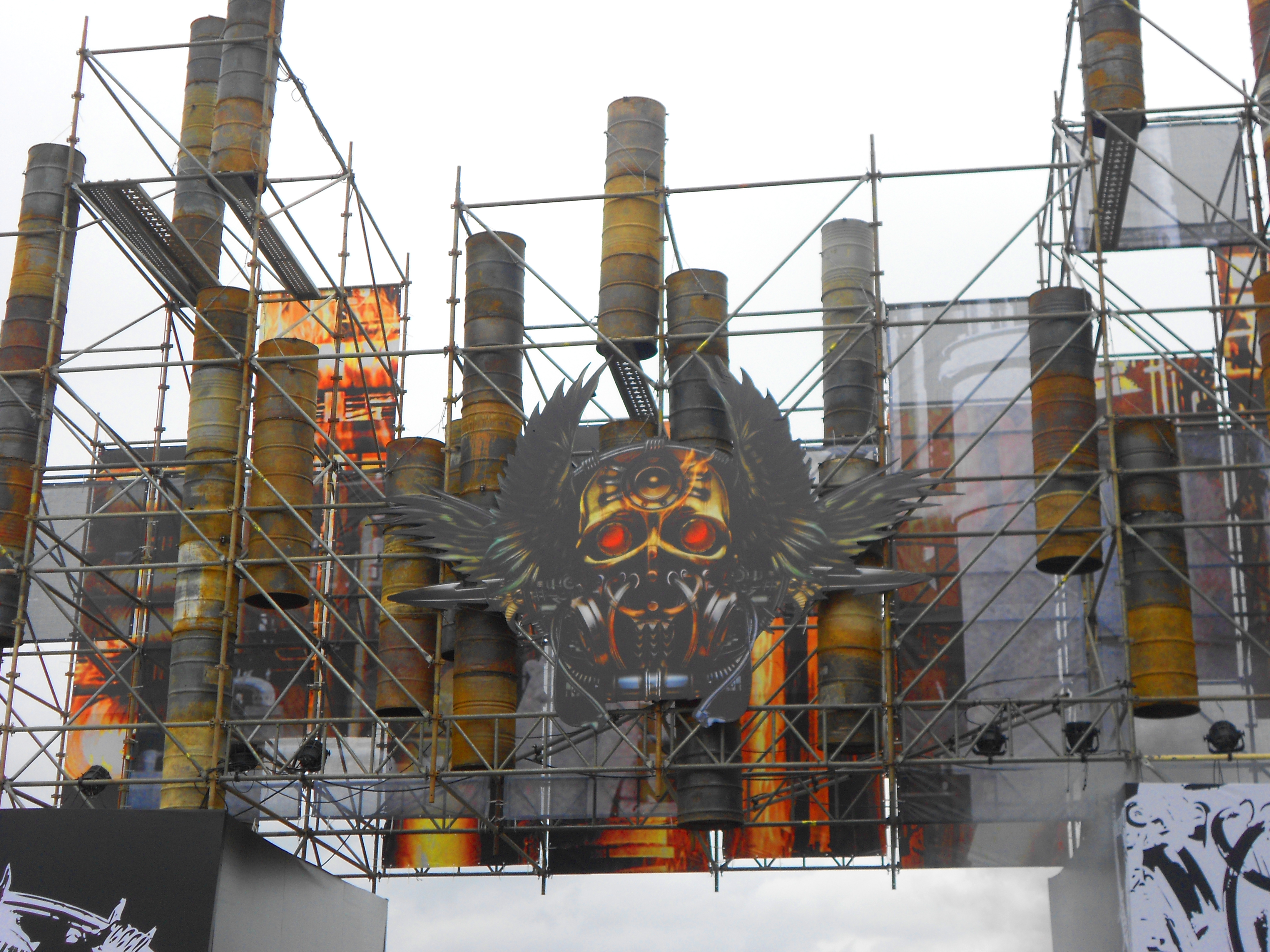 Detalhe do Palco do Maximus Festival São Paulo em 2016